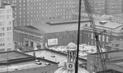 Seattle Ice Arena, Seattle, Washington, U.S., 1958. The dome in center foreground is part of the old First Presbyterian Church; jutting to right of the Ice Arena is the old Plymouth Congregational Church. Behind the Ice Arena is the Olympic Hotel.